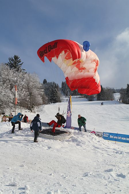 Juniors Winner Paraski EC Sankt Johann 2011 Edmund Pittracher